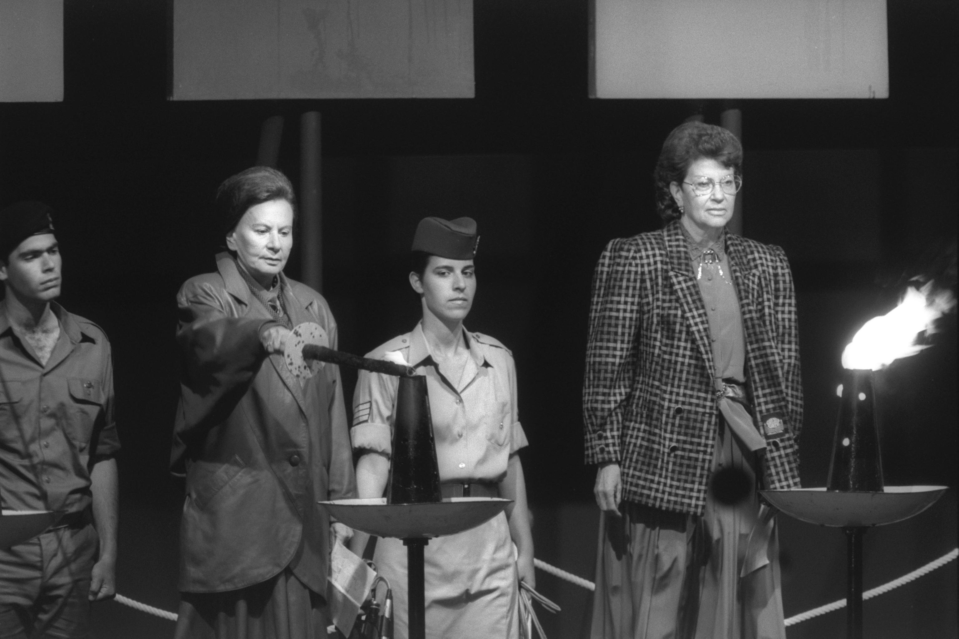 Supreme court justice Miriam Ben Porat lighting one of 12 beacons at israel's 40th anniversary celebration on mt. Herzl in Jerusalem (20/04/1988). שופטת בית המשפט העליון מרים בן פורת מדליקה משואה בטקס יום העצמאות ה - 40 למדינת ישראל בהר הרצל בירושלים. Photo: Yaakov Saar (1951–) Alternative names SA'AR YA'ACOV; Jacob Saar; Saʻar, YaʻaḳovDescriptionIsraeli photographerDate of birth 1951 Authority control : Q28751896 VIAF: 298161188 NLI: 001394176 creator QS:P170,Q28751896 .